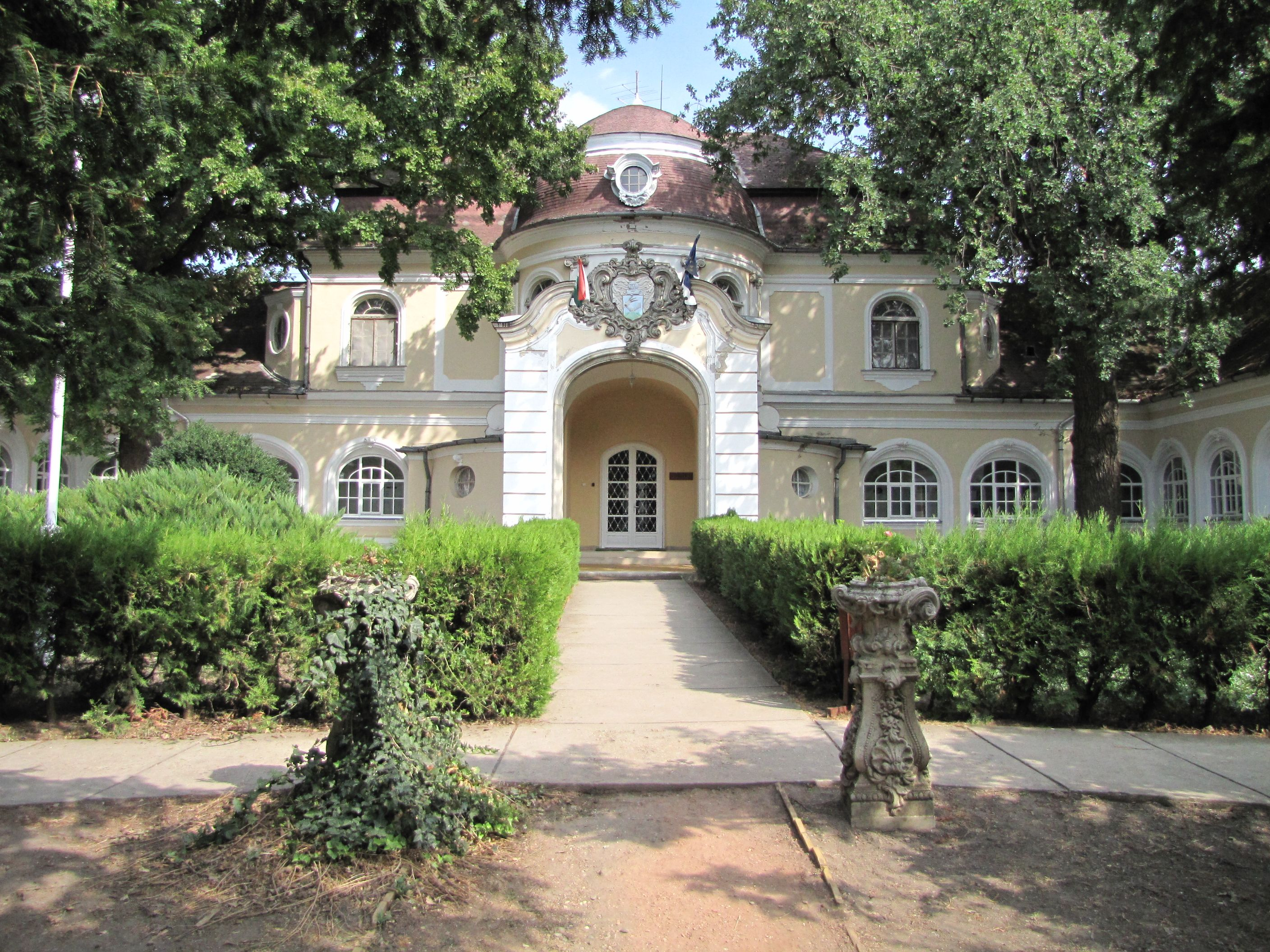 Horthy Mansion, main facade, Kenderes, Hungary